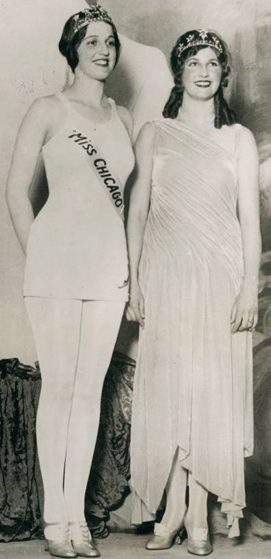 Miss Universe 1928, Ella van Huesen of Chicago, stands with Miss Universe 1927, Dorothy Britton of New York.